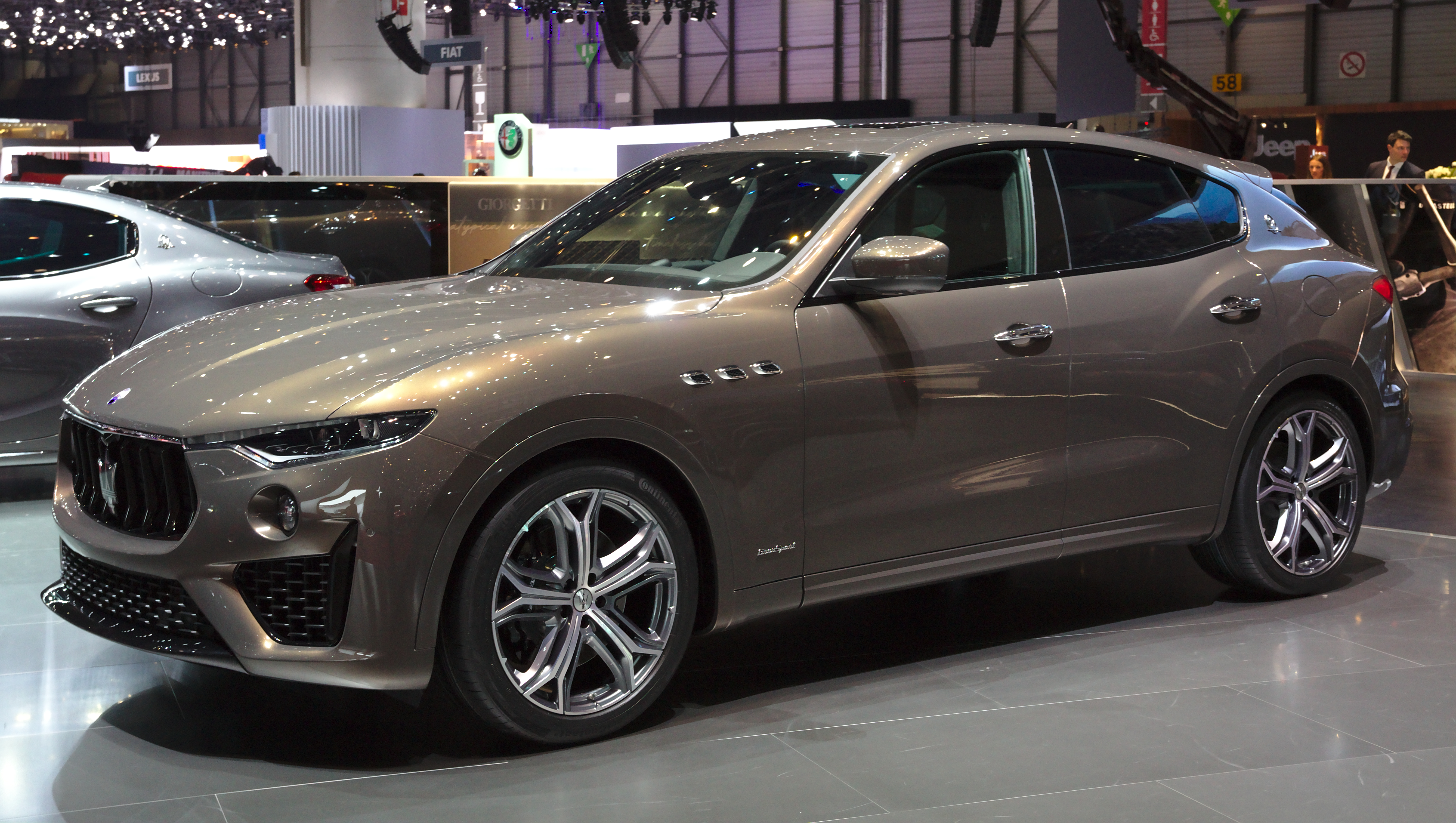 Maserati Levante at Geneva Motor Show 2019